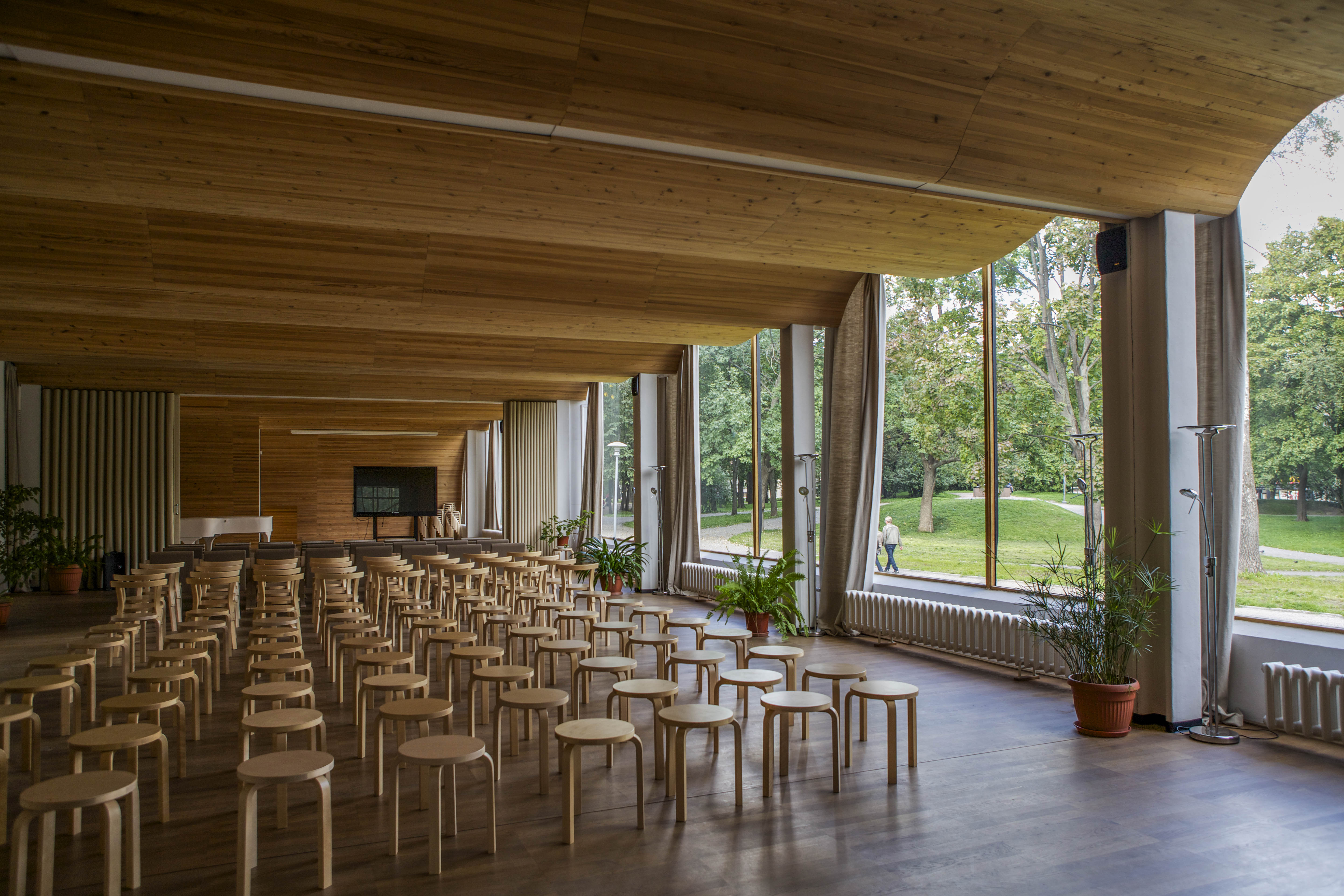 Viipurin kirjasto